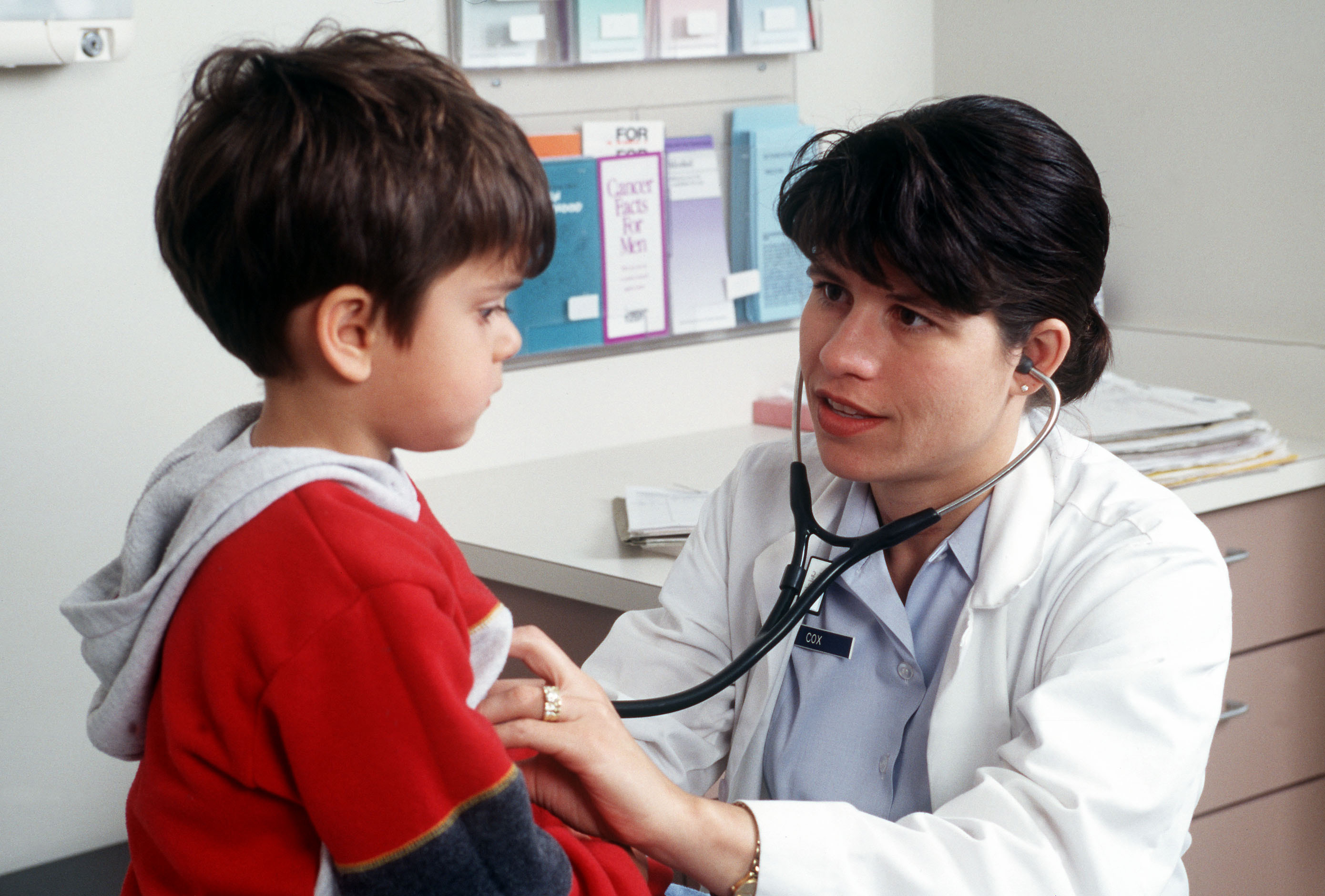 A doctor listens to the lungs of 3-year old boy.